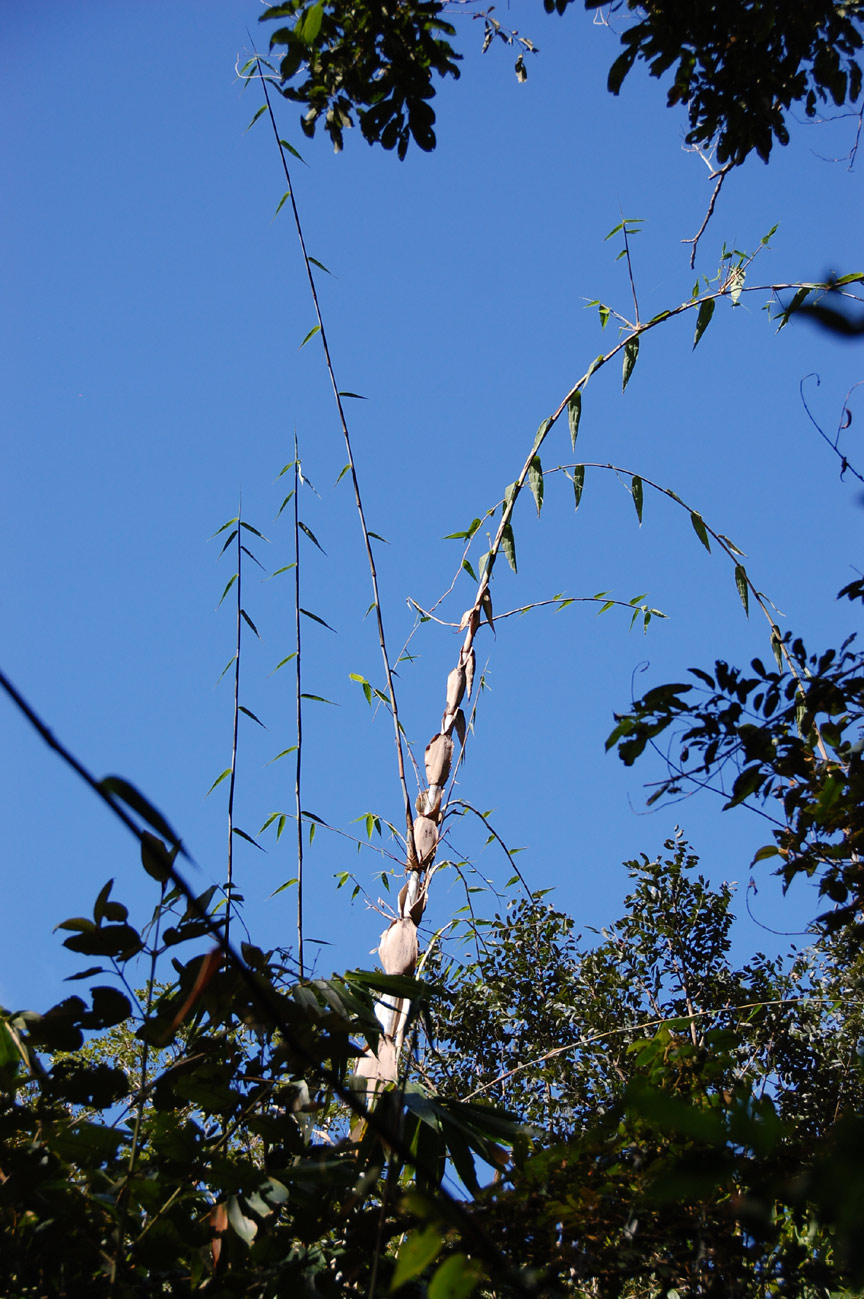 Oreobambos buchwaldii - Tava Marsh, Moribane Forest Reserve, Mozambique